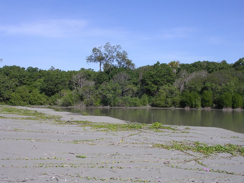 Mangrove and coastal strand vegetation by Lake Naan Kuro, Natarbora